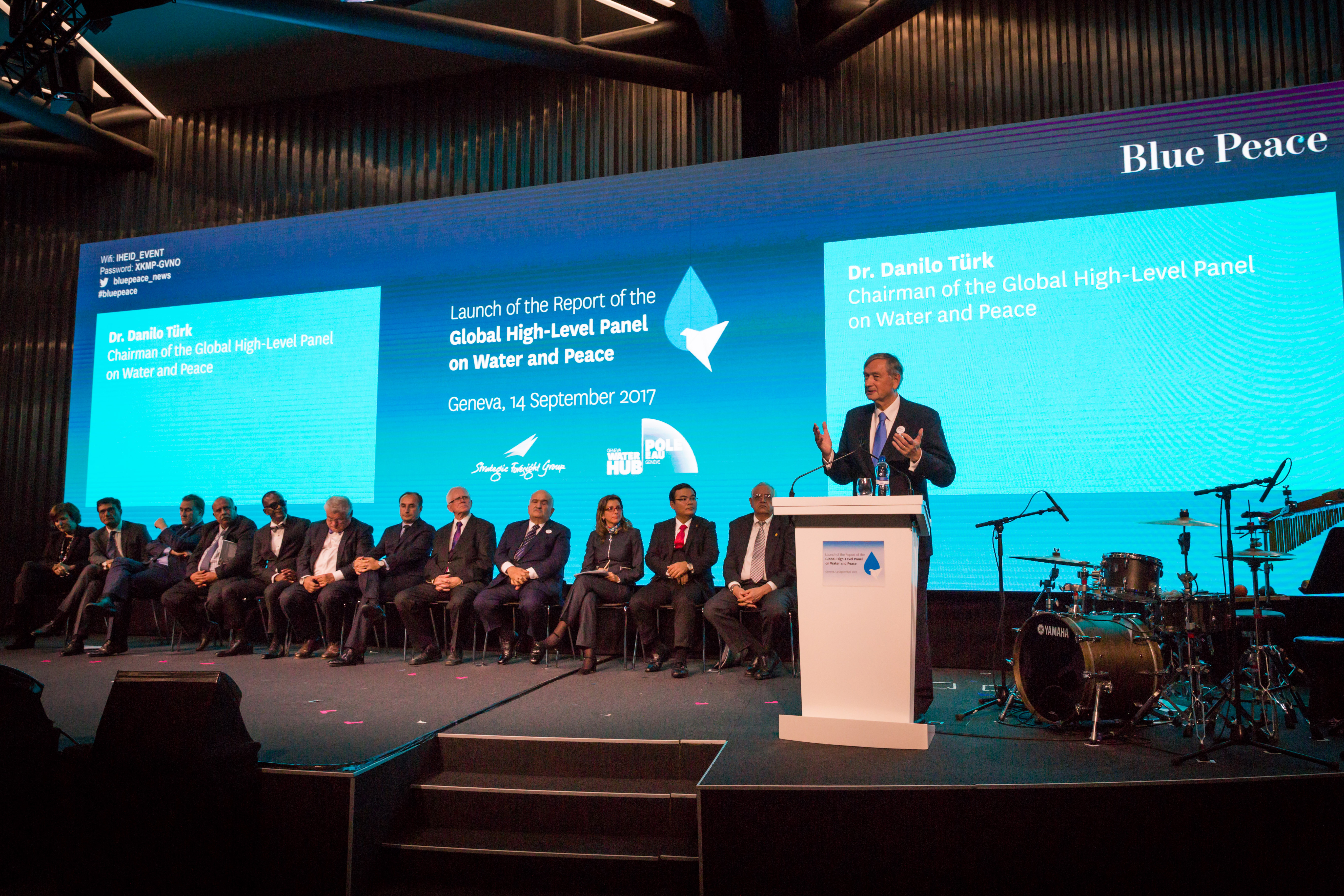 Global High-Level Panel on Water and Peace together on stage